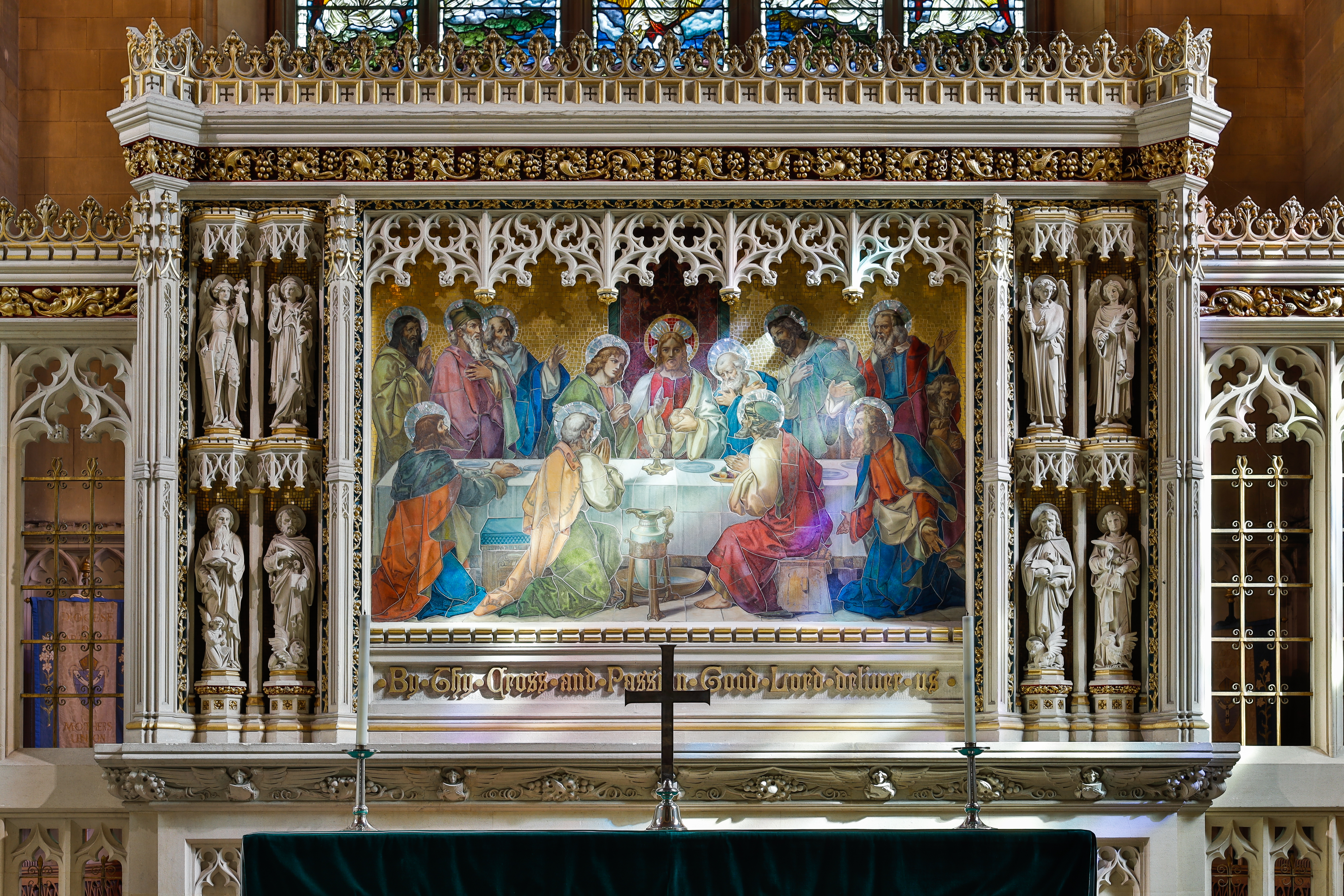 Reredos of the main altar, carved out of Corsham stone and with a panel of painted ceramic, depicting the Last Supper. The reredos was designed by George Fellowes Prynne, carved by H. H. Martyn & Sons, Cheltenham, and the panel was created by Percy Bacon Bros of London. The reredos was installed in 1913. (See Kevin V. Mulligan, The Buildings of Ireland: South Ulster, p. 103.) Wikidata has entry Q2942532 with data related to this item.